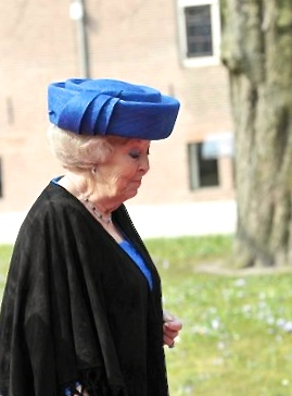 Queen Beatrix of the Netherlands on April 8, 2013 in Amsterdam.